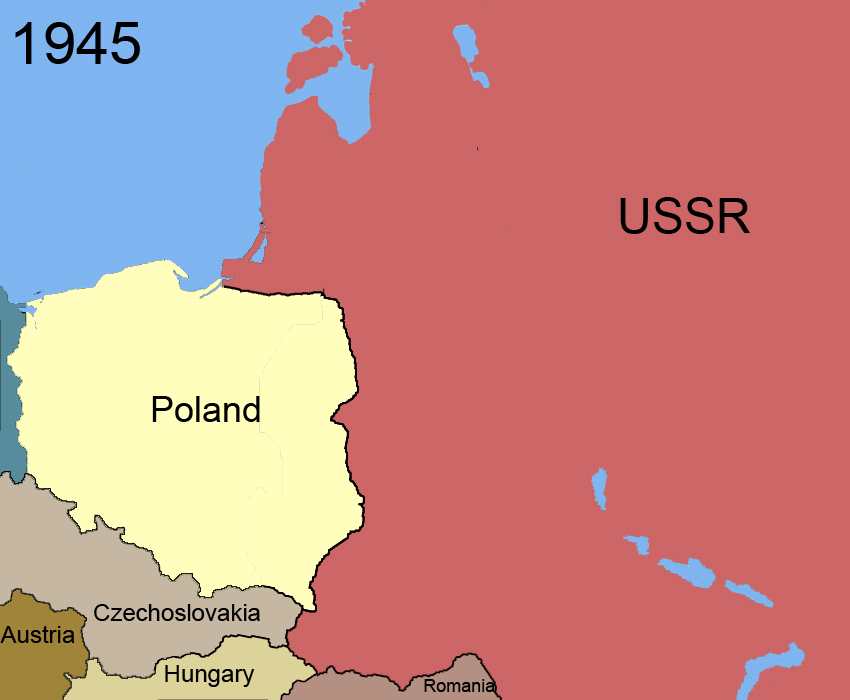 Poland 1945